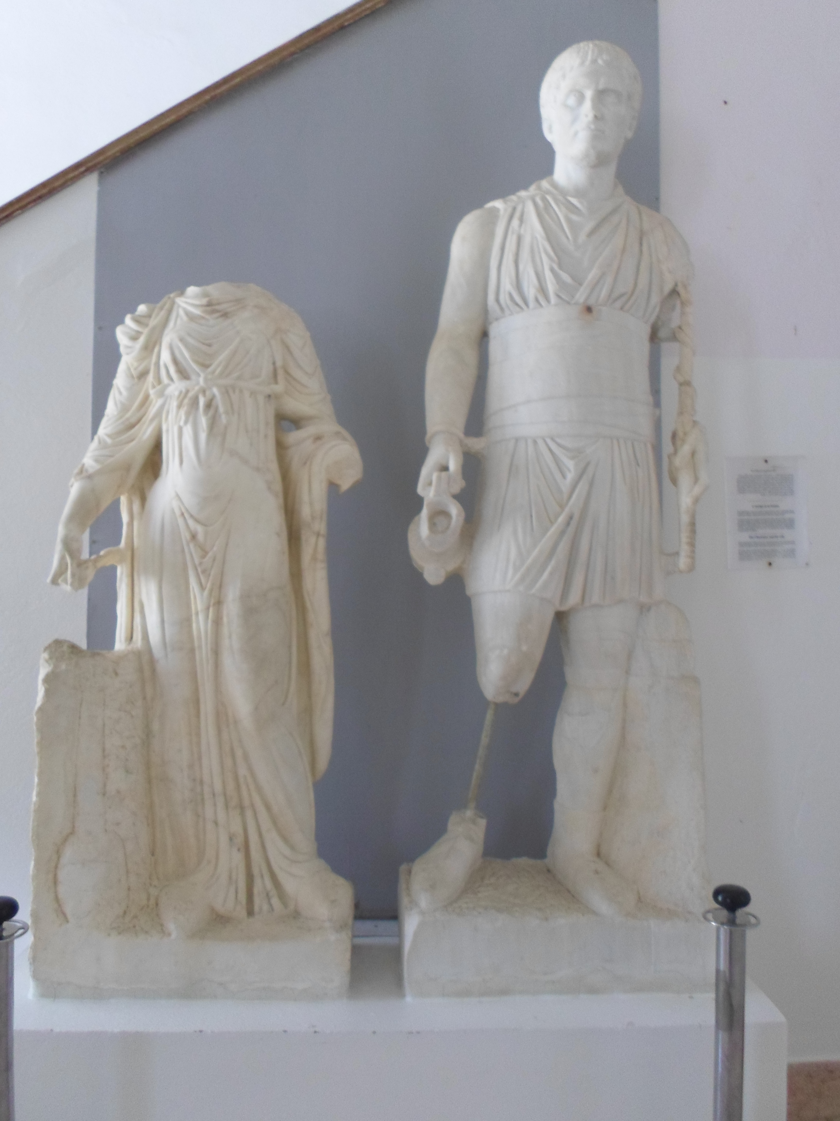 Ancient Roman statues in the Carthage National Museum